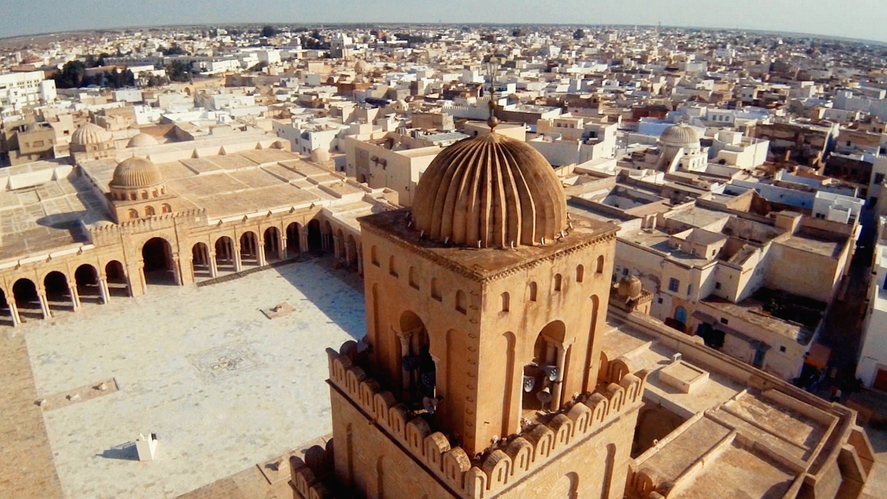 Rare arial view of Kairouan Great Mosque or Mosque of Uqba in Tunisia.